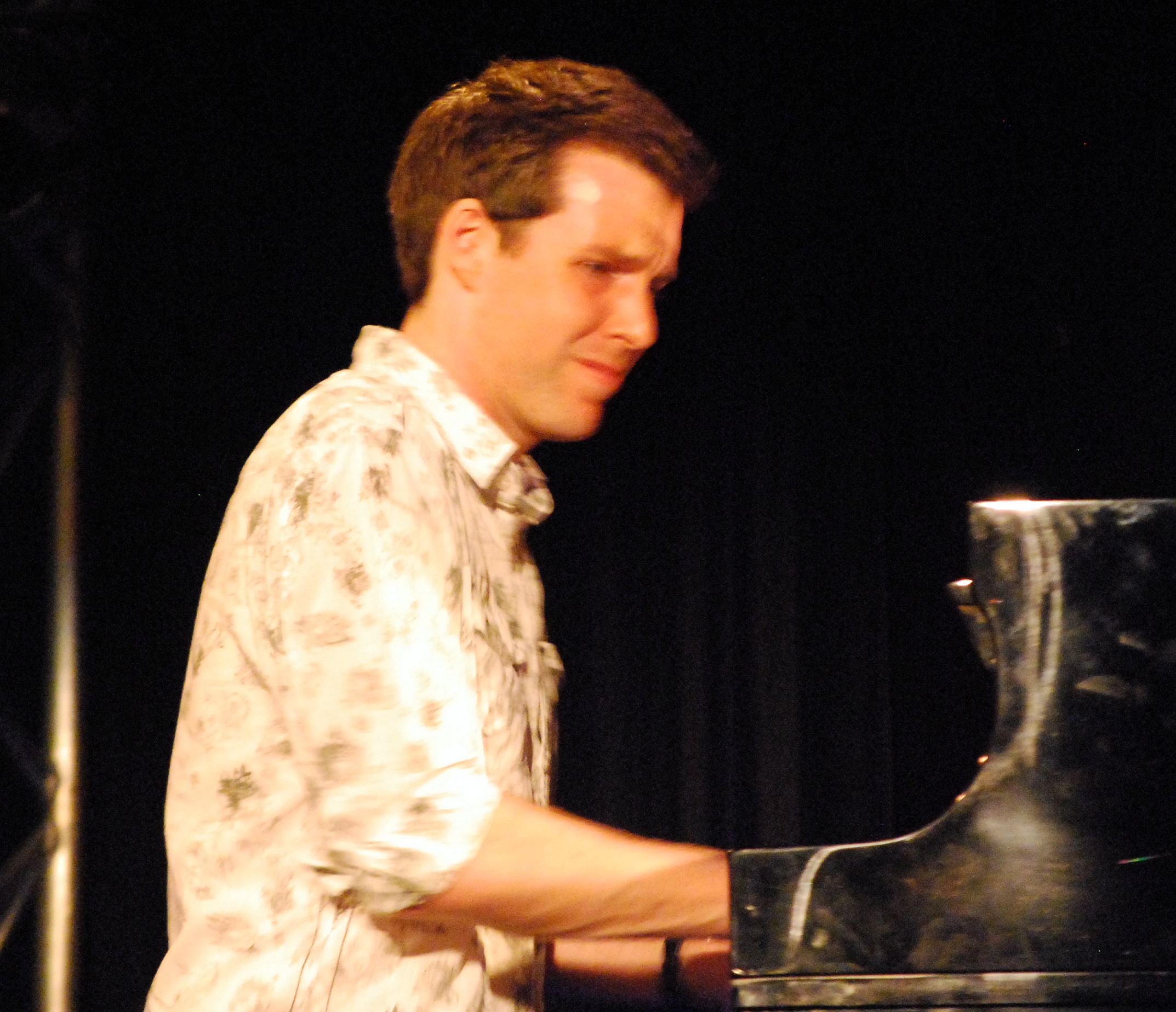 Gwilym Simcock, Treibhaus Innsbruck 2010. Concert with Adam Nussbaum, Mike Walker, Steve Swallow